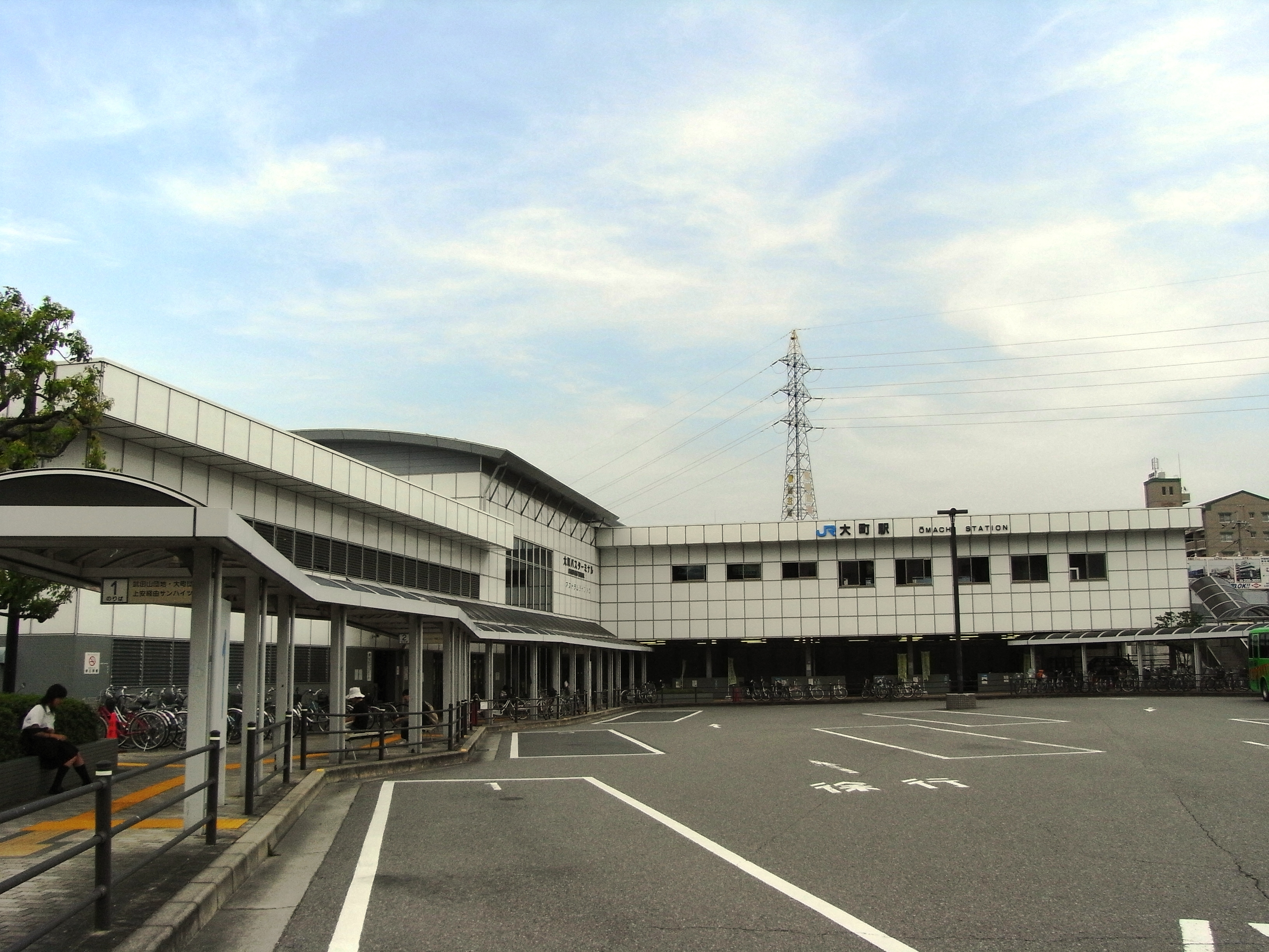 Ōmachi Station in Hiroshima as of July 2008.